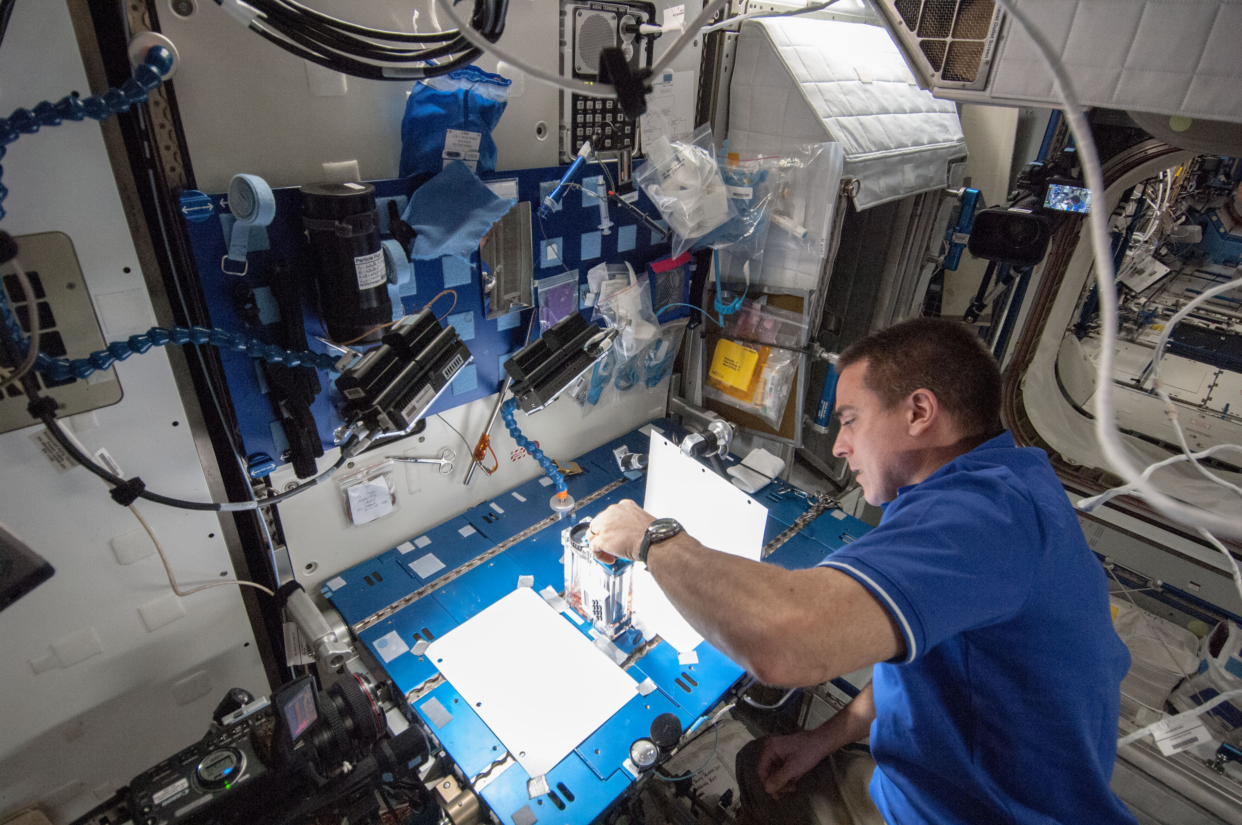 Expedition 36 flight engineer Chris Cassidy of NASA works on the Capillary Flow Experiment aboard the International Space Station on May 22. The Payload Operations Integration Center assists the crew with experiments like this from the ground.